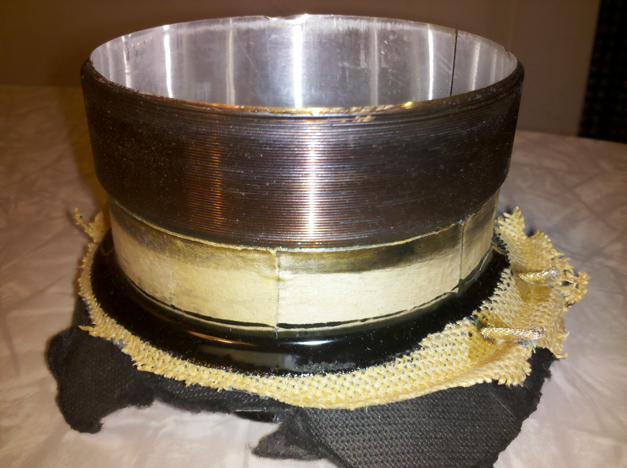 A three inch dual voice coil from a subwoofer type loudspeaker driver.